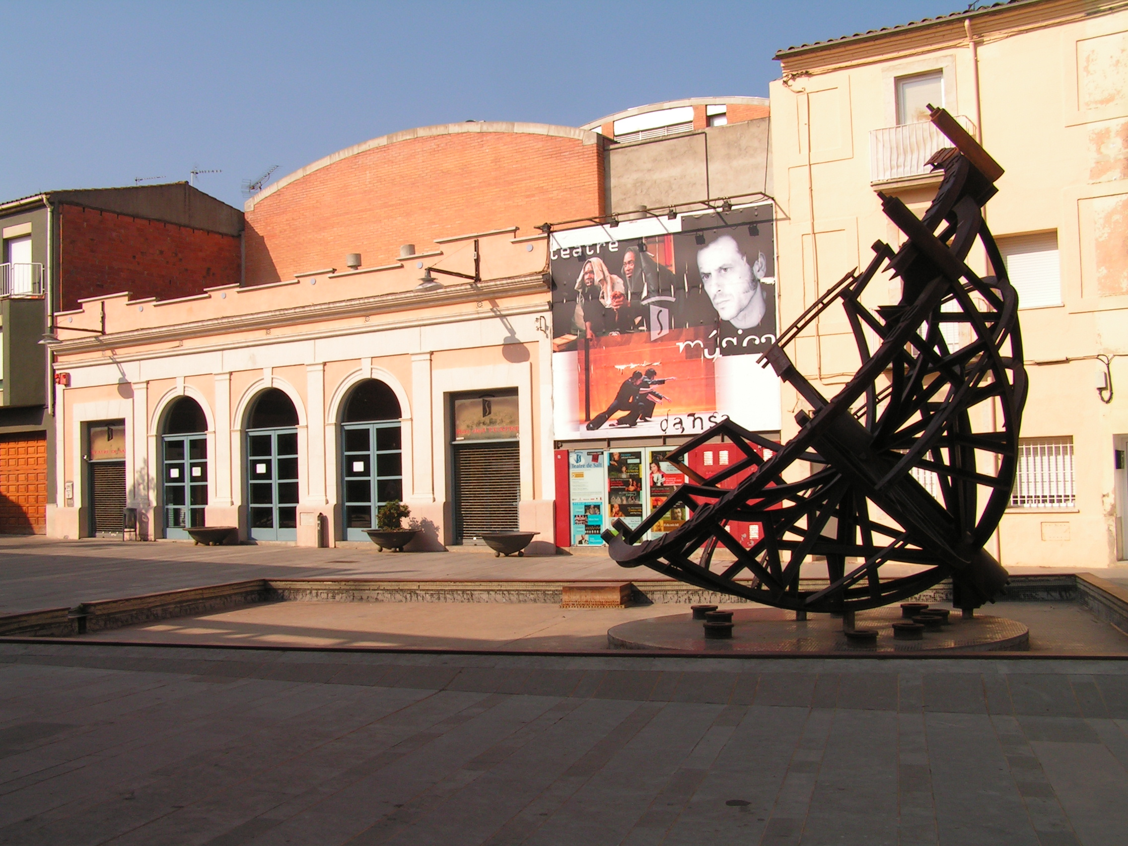 Theatre of Salt, at Plaça Sant Jaume in the city of Salt (Gironès). In the foreground is the sculpture Cúpula invertida (Inverted Cupula, 1997), by Josep Admetlla, with poetry on it by Carles Vivó, Antoni Puigvert and Xavier Otero.